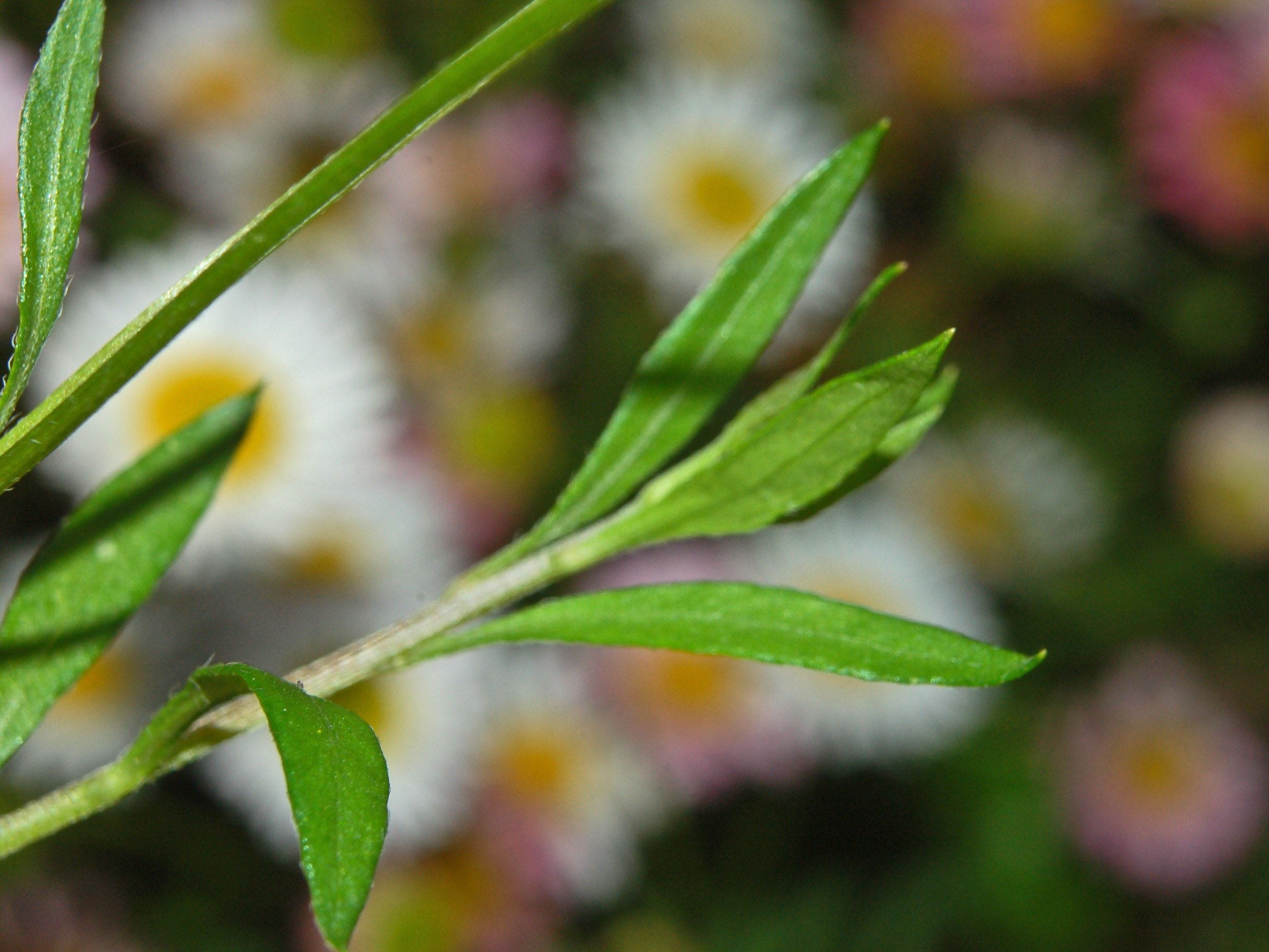 Erigeron karvinskianus - Genova, Italy